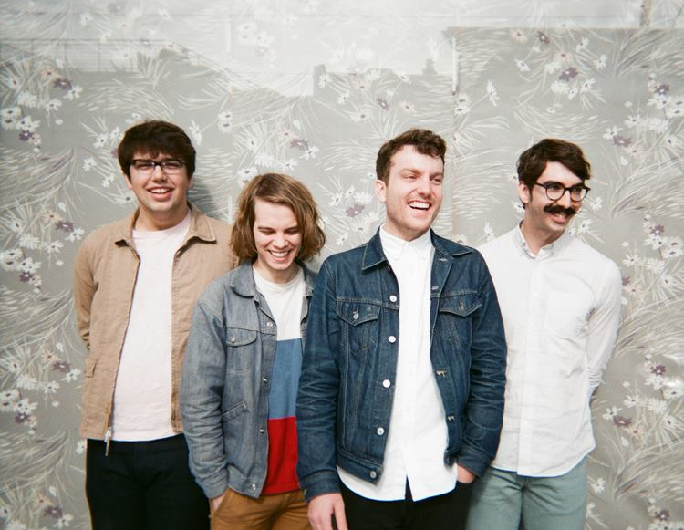 2015 Press Photo